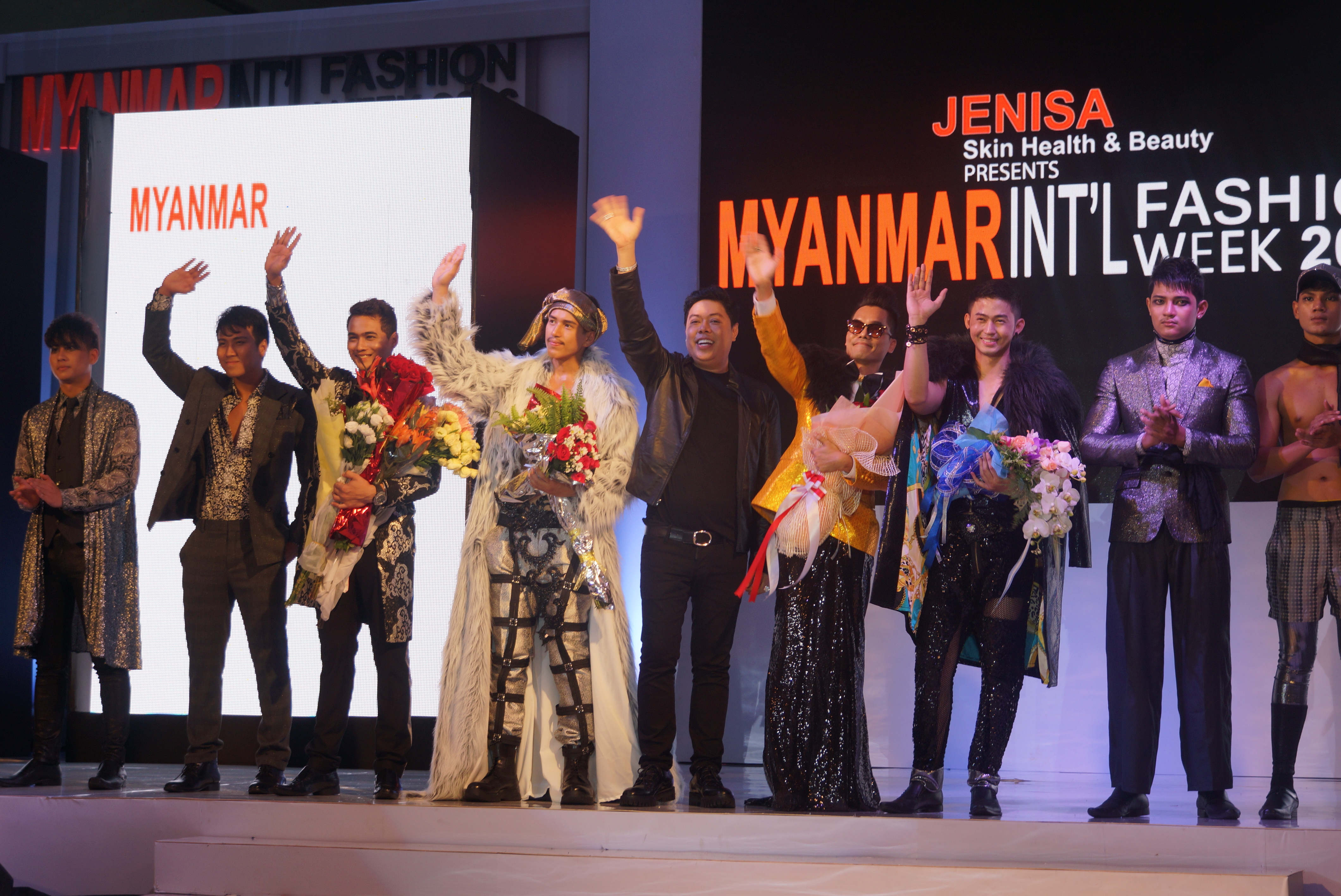 Mr John Lwin successfully ending off Myanmar International Fashion Week 2016 with Thailand Designer dVis and Myanmar's Superstar Aung Ye Lin at Shwe Htut Tin